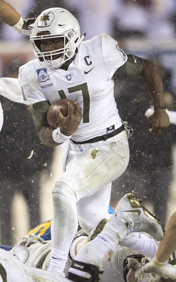 Army quarterback Ahmad Bradshaw rushes the ball on the final scoring drive in the 118th Army-Navy Game in Philadelphia Dec. 9, 2017. Bradshaw went on to score on a one-yard rush to give Army the win 14-13. (DoD photo by EJ Hersom)